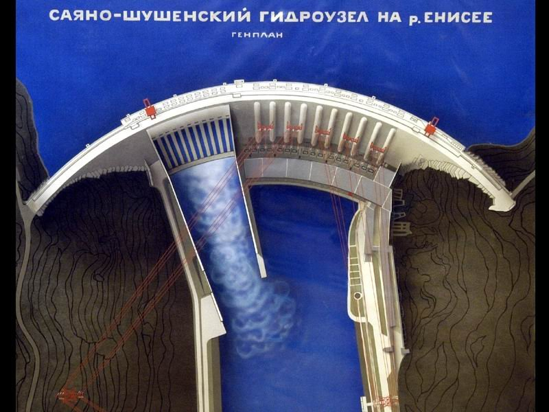 Computer generated model of the Sayano–Shushenskaya Dam in Russia.